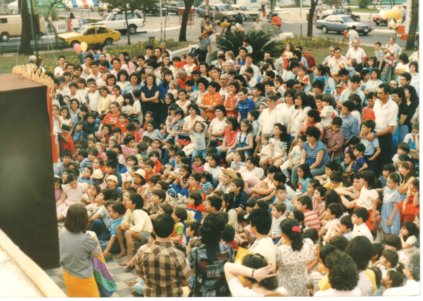 The Puppets of Don Policarpo performing in an Asunción park.